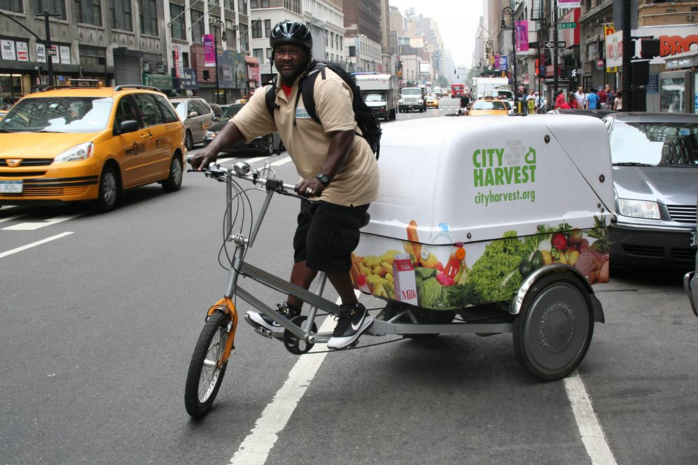 City Harvest Cargo Bike